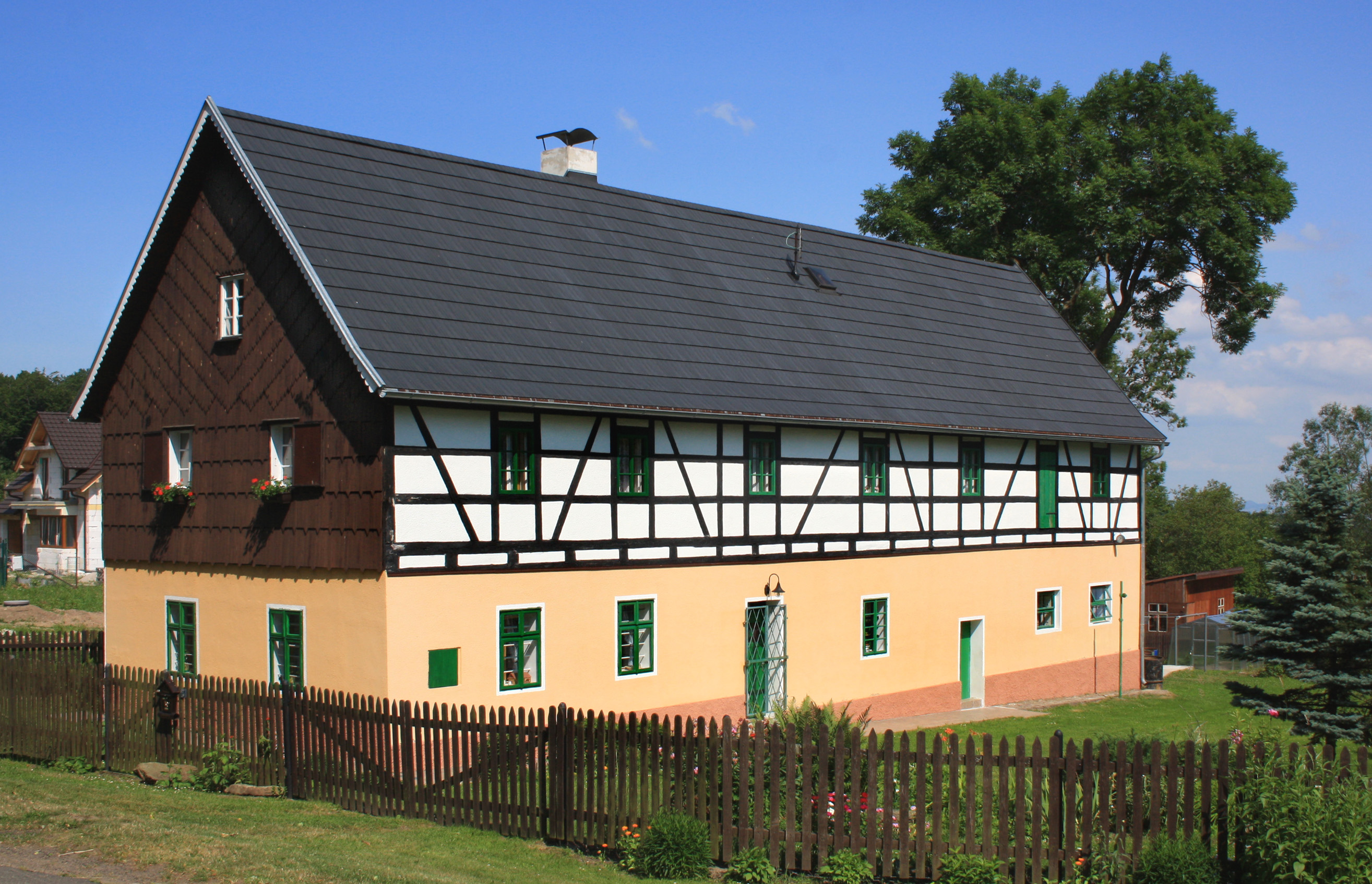 Old house in Květnov, part of Blatno, Czech Republic